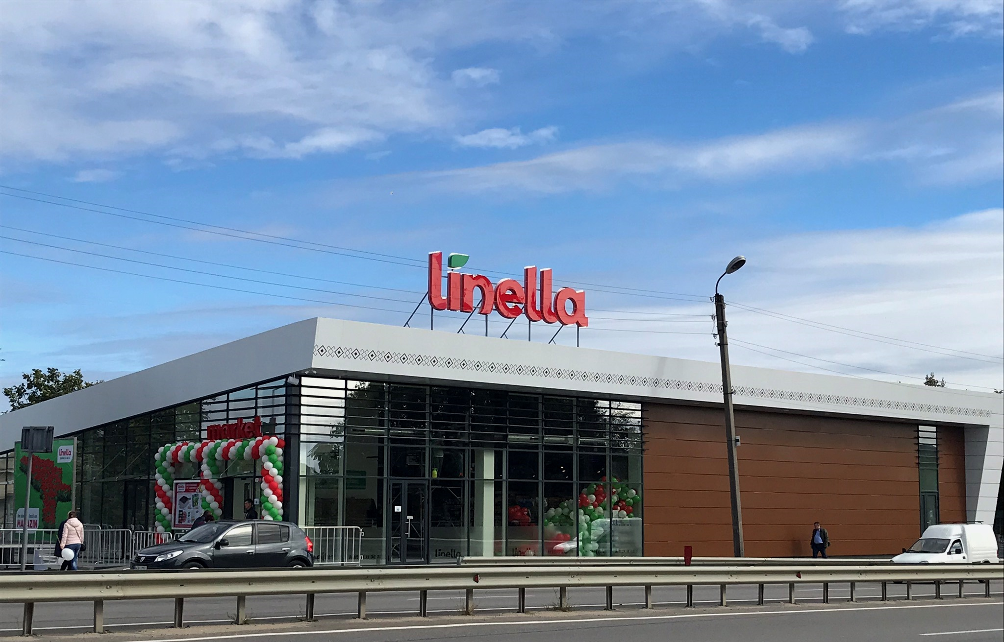 Magazinul Linella de la Măgdăcești